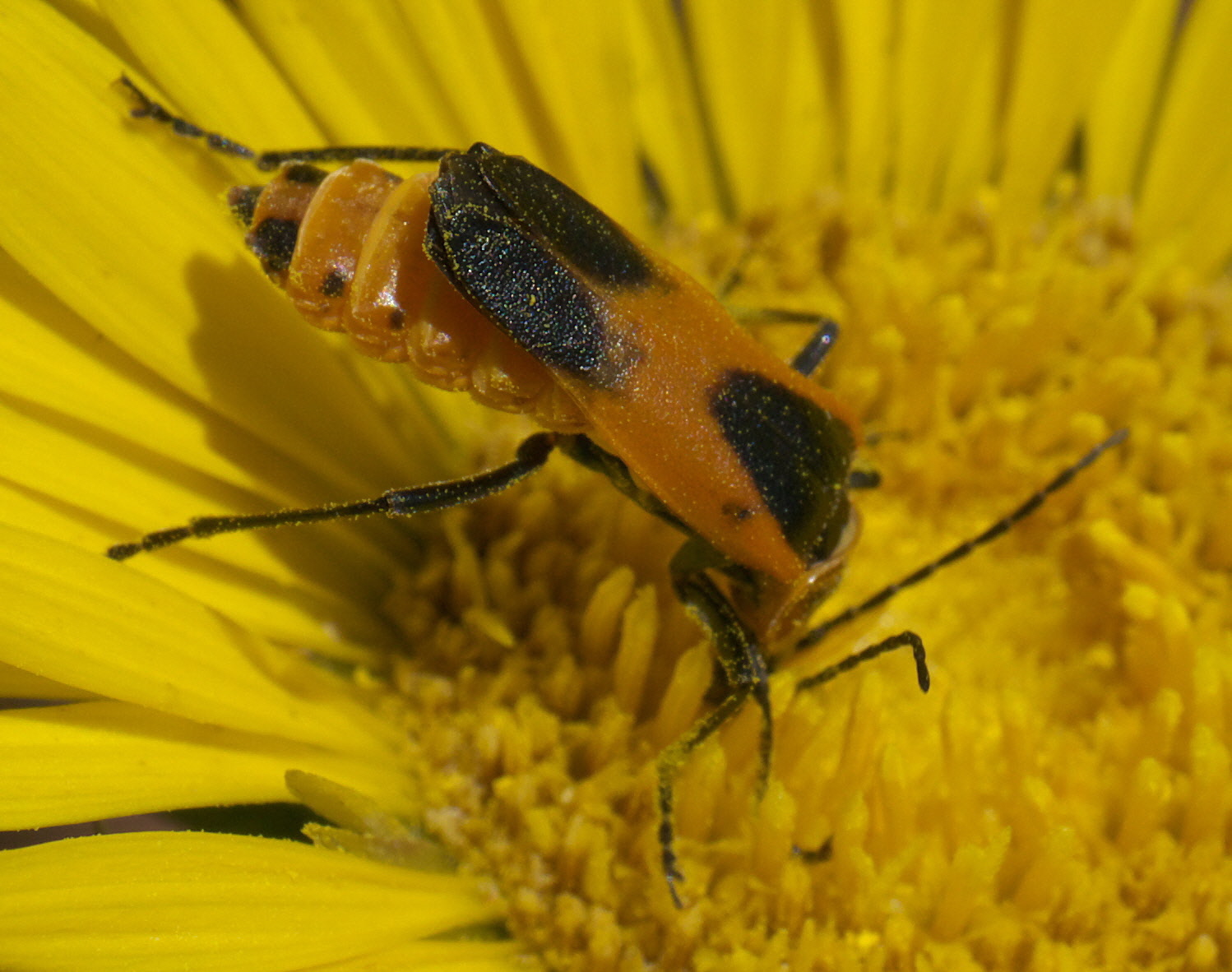 Chauliognathus basalis, Colorado Soldier Beetle, ID Confidence: 87